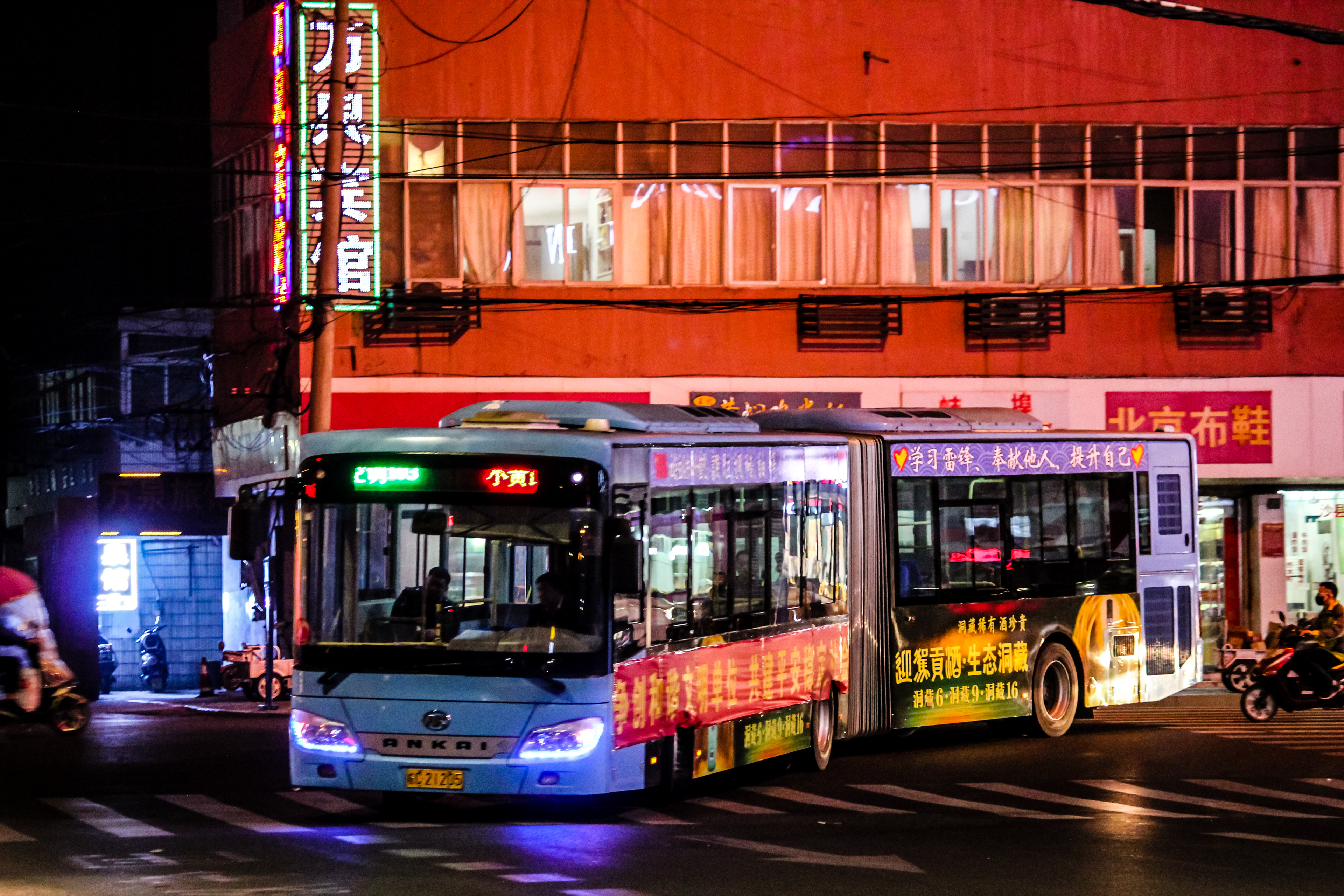 Bengbu Bus No.103 with ANKAI Articulated Bus